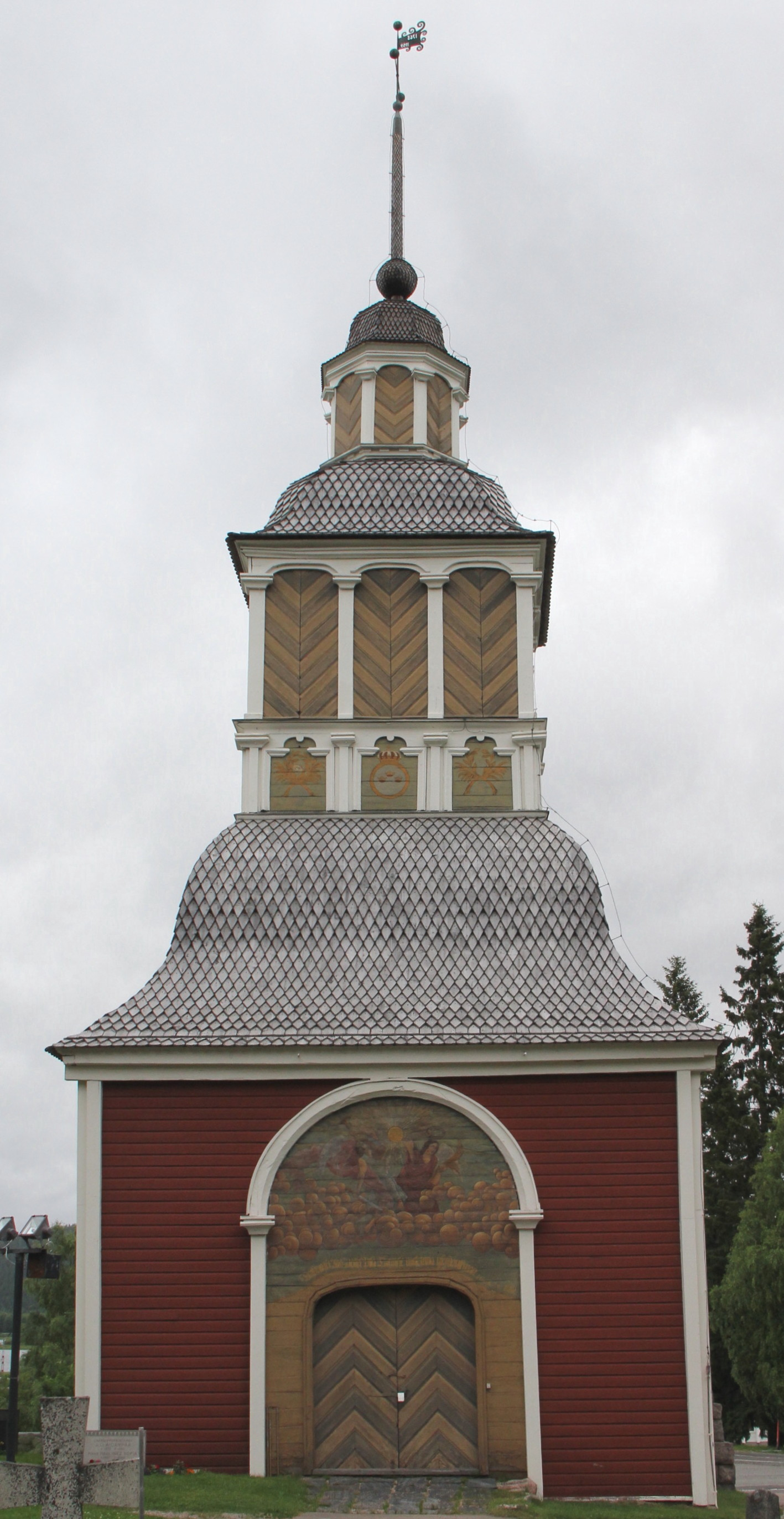 Övertorneå church, Övertorneå, Sweden. - Bell tower of bothnian style, completed in 1763.